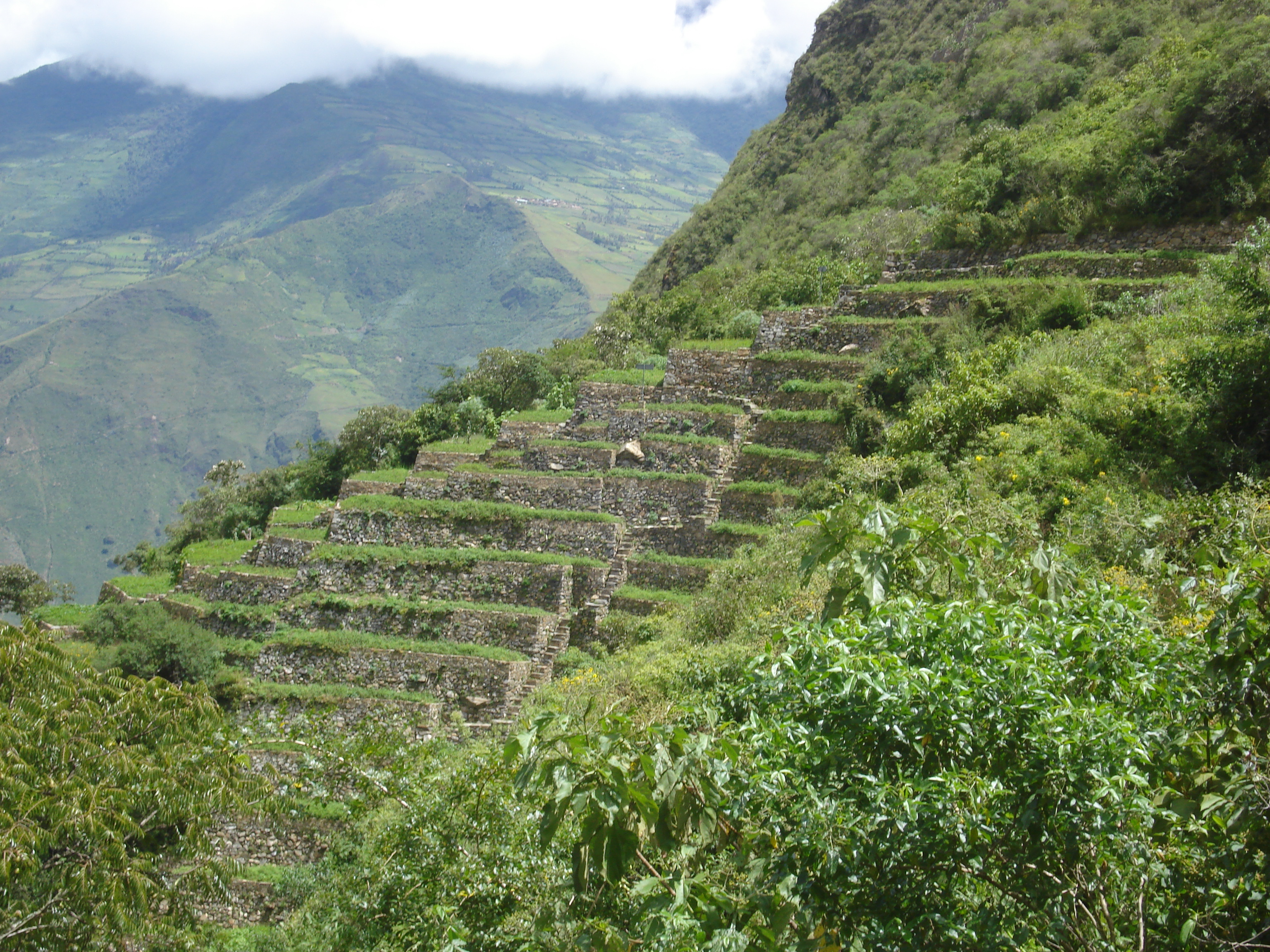 Stone Terraces Choquequirao